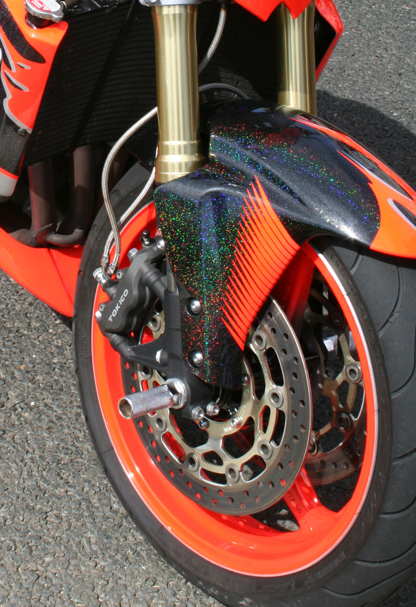 Honda Stunt Bike (front wheel detail), during the Stunt Bike Show (Carole Racetrack, France)